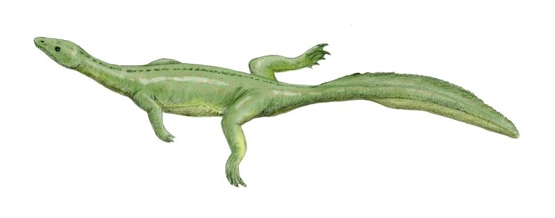 Miodentosaurus brevis, a thalattosauria from the Upper Triassic of China, after description by Cheng et al., 2007, pencil drawing, digital coloring